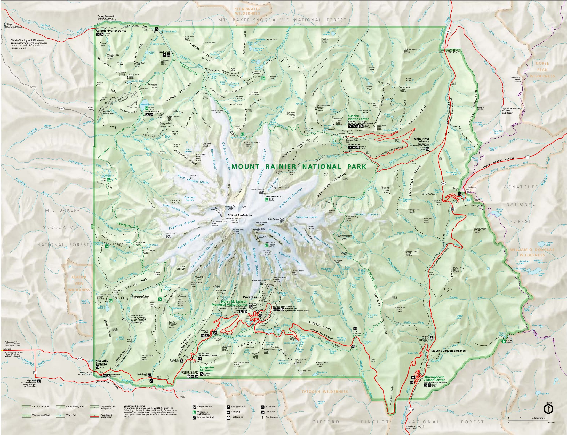 NPS map of Mount Rainier National Park